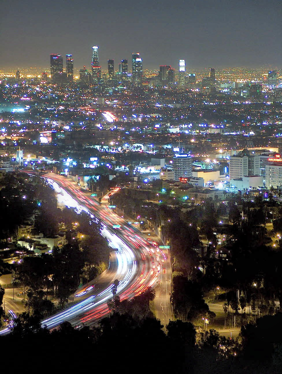 Los Angeles skyline at night as seen from Mulholland Dr.